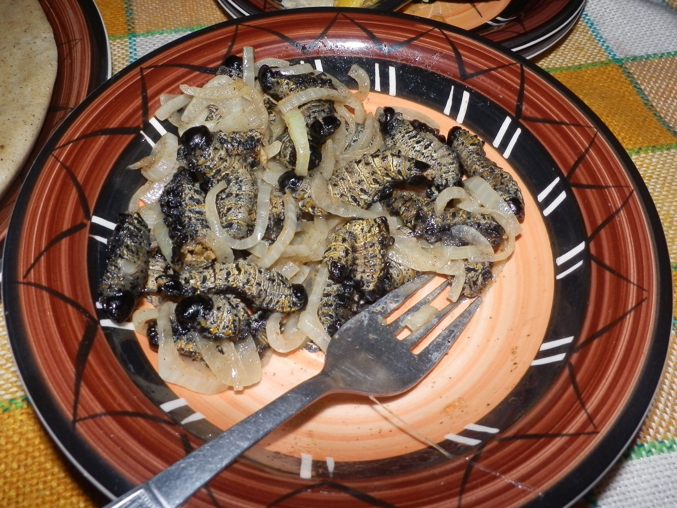 Cooked Mopane worms (Gonimbrasia belina), served with onions, traditional meal of the Owambo people, here made for tourists in Namibia